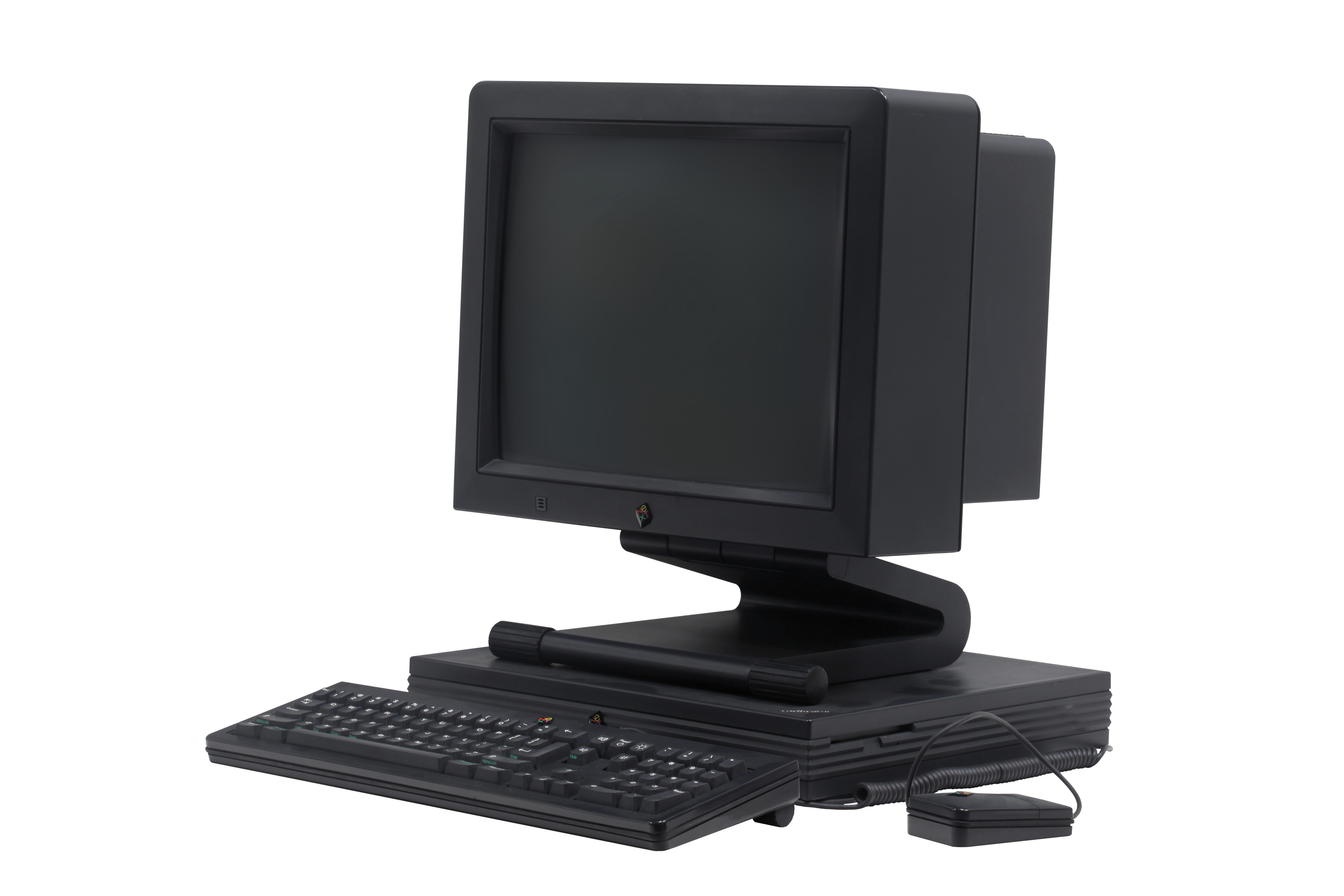 NeXTstation workstation. On display at the Musée Bolo, EPFL, Lausanne.